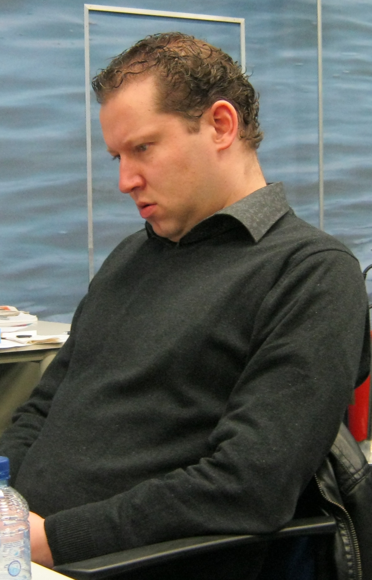 Jan Willem de Jong, chess player from the Netherlands